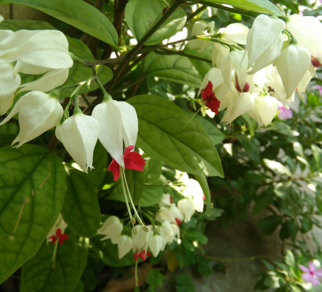 The anthers wither as the stigma grows and fall off when the stigma finally matures. This protandrous condition prevents self-fertilization and promotes gene recombination.